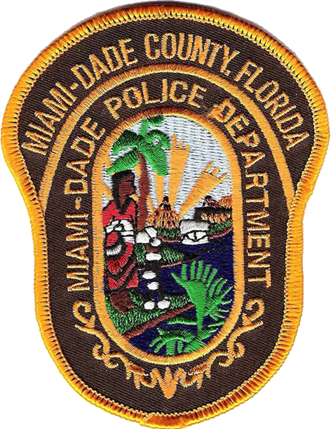 Patch of the Miami-Dade Police Department